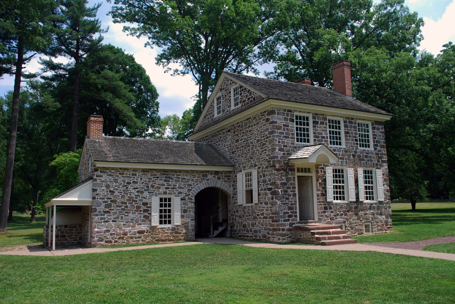 The headquarters of George Washington at Valley Forge, Pennsylvania.